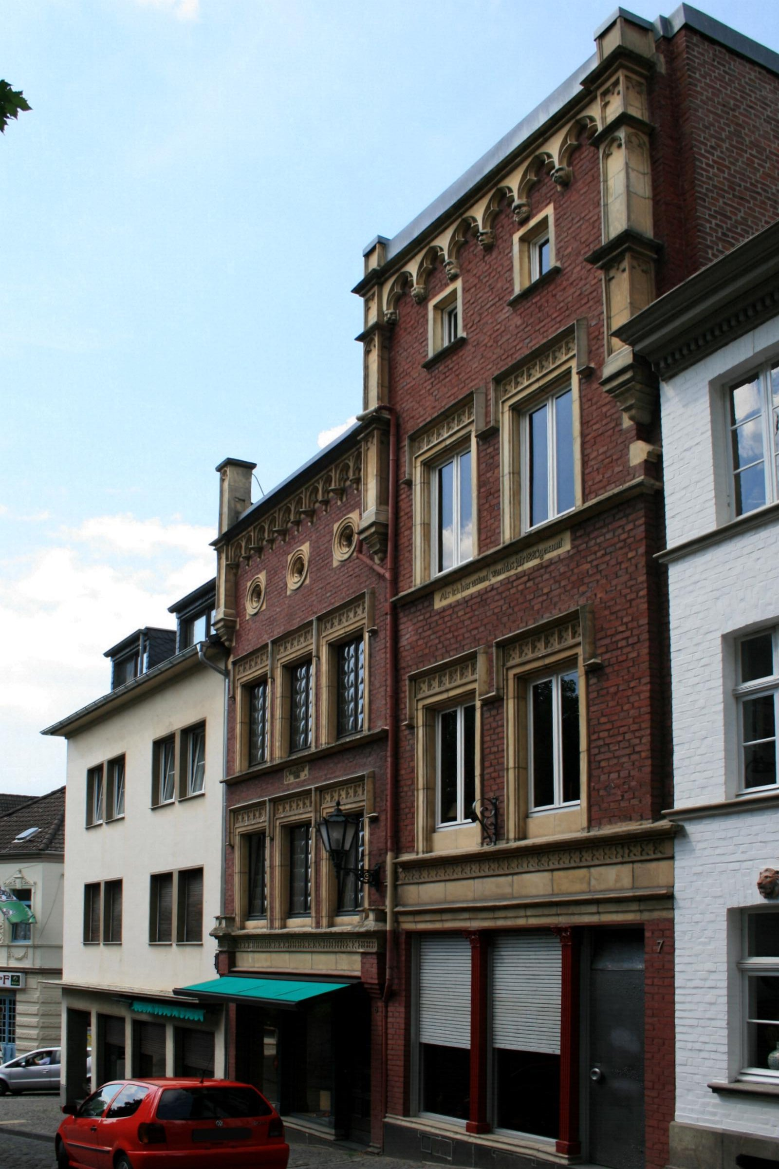 Cultural heritage monument No. A 014 in Mönchengladbach